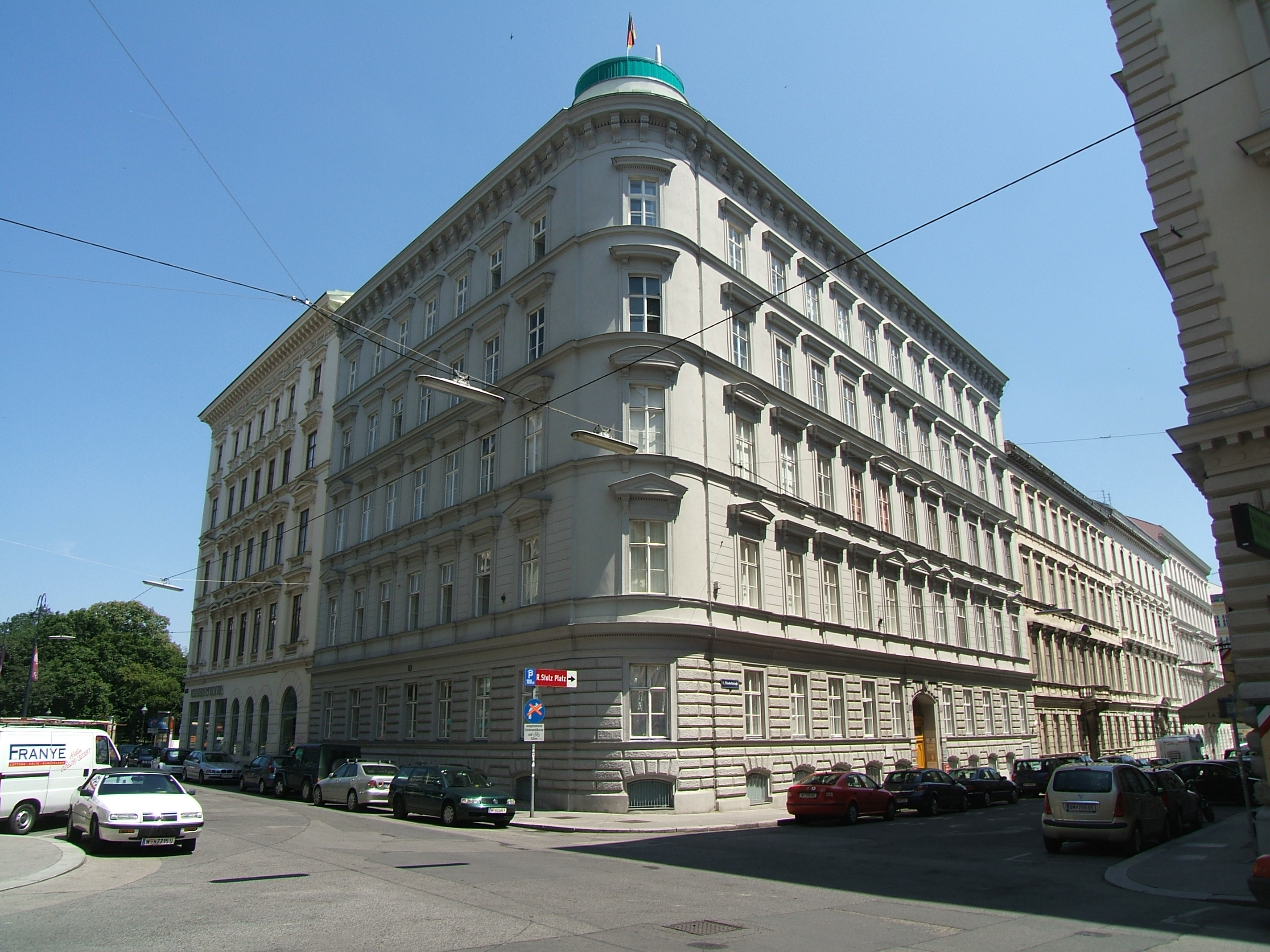 Palais Landau in Vienna 1st district Elisabethstraße 22